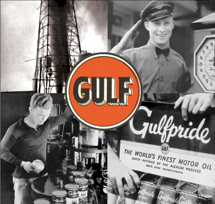 Official Gulf Oil Corporation photos from a presentation/Gulf history book issued in the 1930´s together with original Gulf old logo